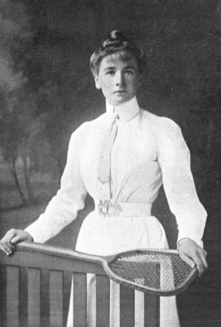 Charlotte Cooper Sterry (1870-1966), English tennis player, Wimbledon champion 1895, 96, 98, 1901, 1908, Olympic champion in singles and mixed 1900